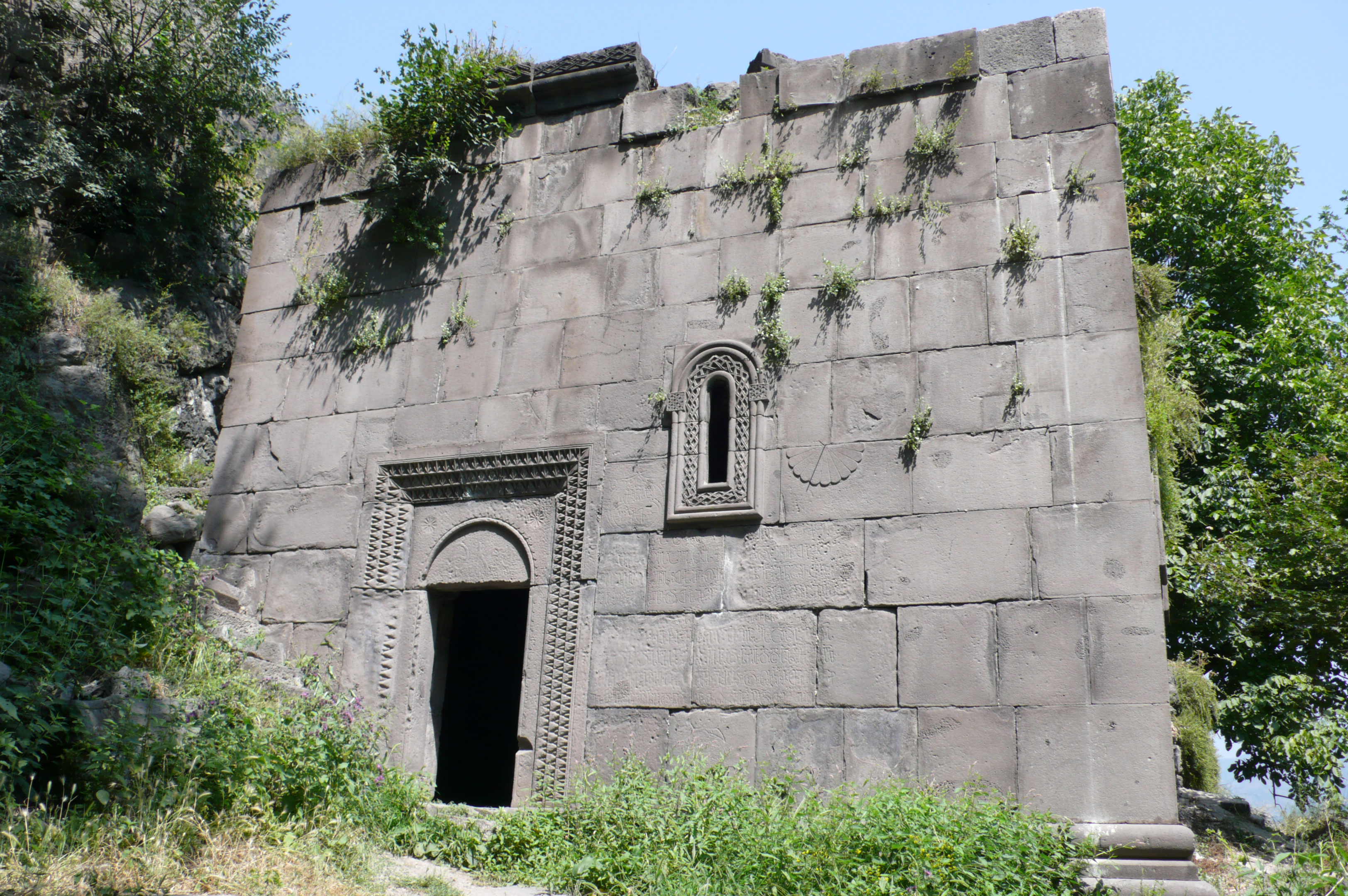 The 12 century Monastery of Kobayr in northern Armenia.